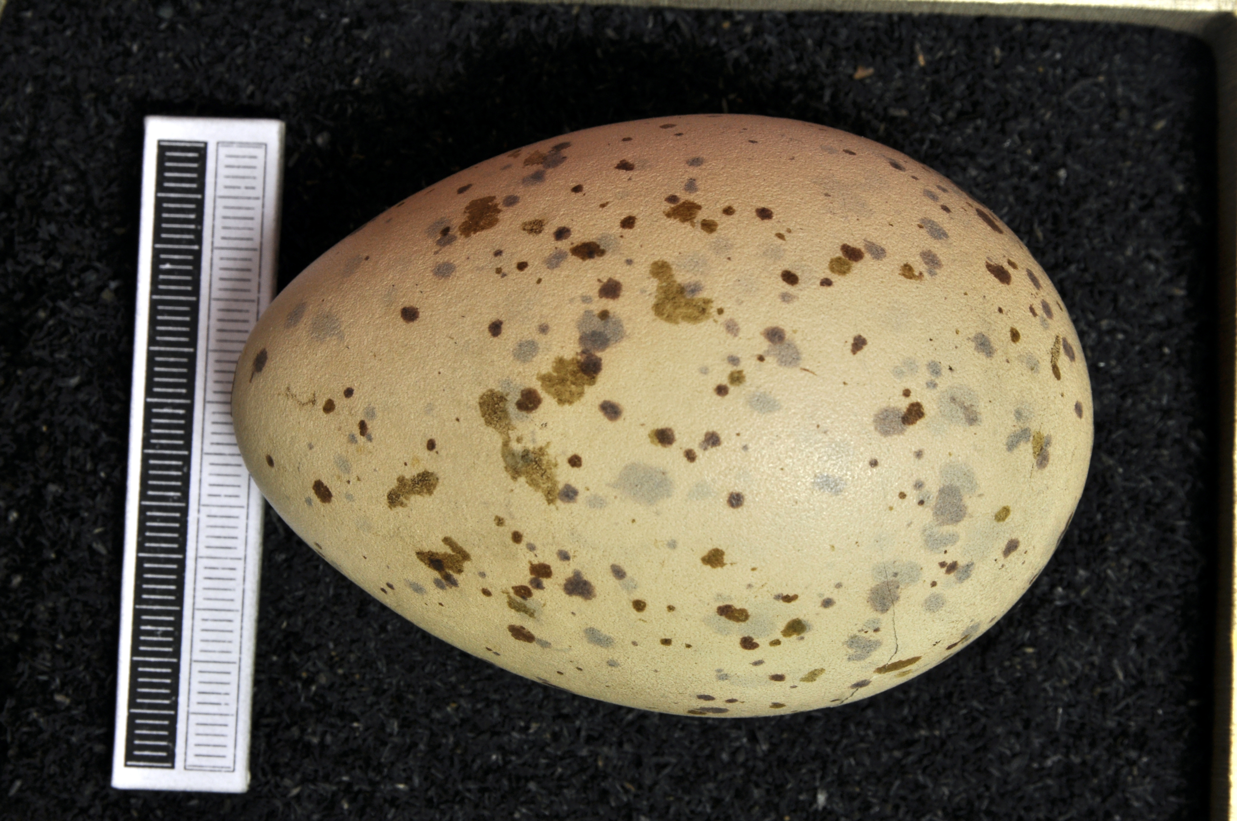 Glaucous gull Larus hyperboreus , egg, Coll. Museum Wiesbaden